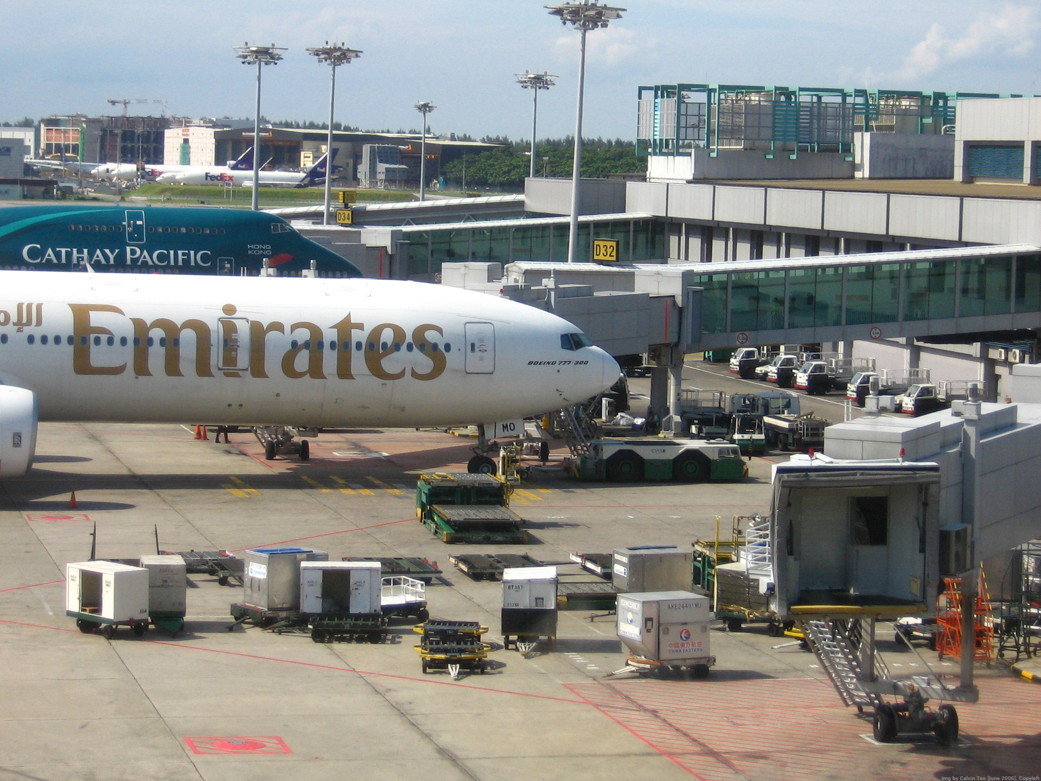 View of the ground handling services of Singapore Changi Airport, servicing an Emirates Boeing 777-300 (A6-EMO), with a Cathay Pacific "Asia World City" Boeing 747-400 (B-HOY) in view.